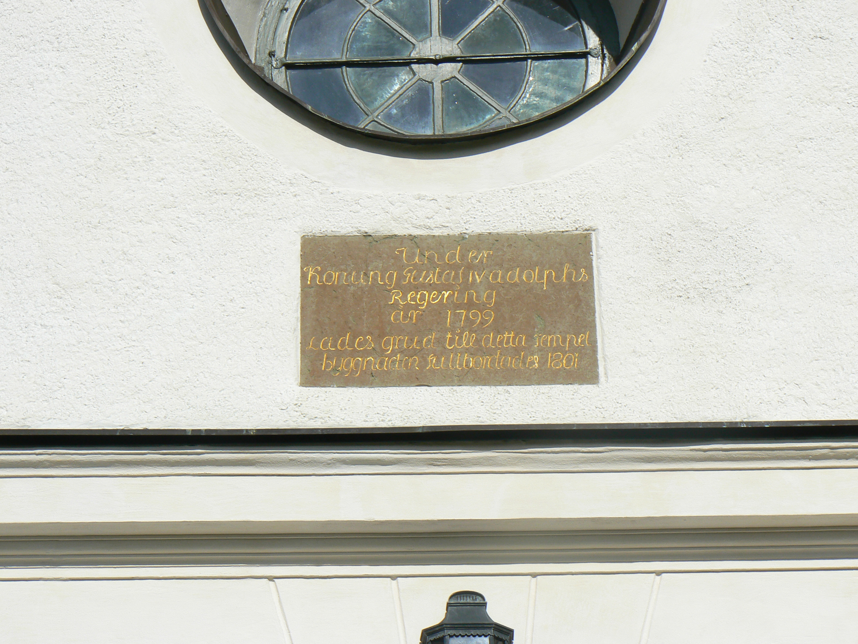 Inscription above the entrence of Gammakil church in Sweden.